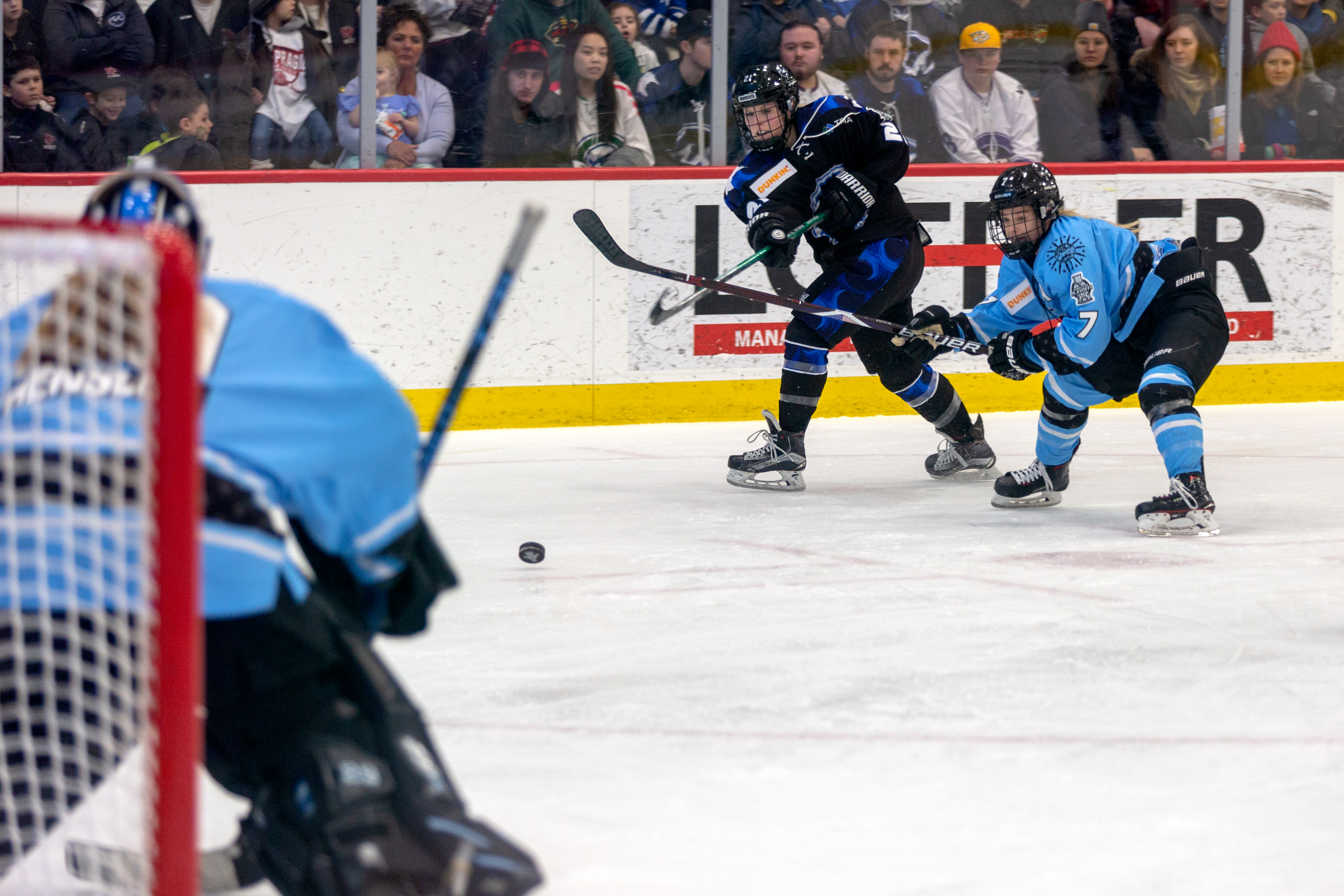 In their final game of the season, the Minnesota Whitecaps won in overtime to beat the Buffalo Beauts 2-1 and to capture the Isobel Cup for the 2018-19 inaugural season of the National Women’s Hockey League.